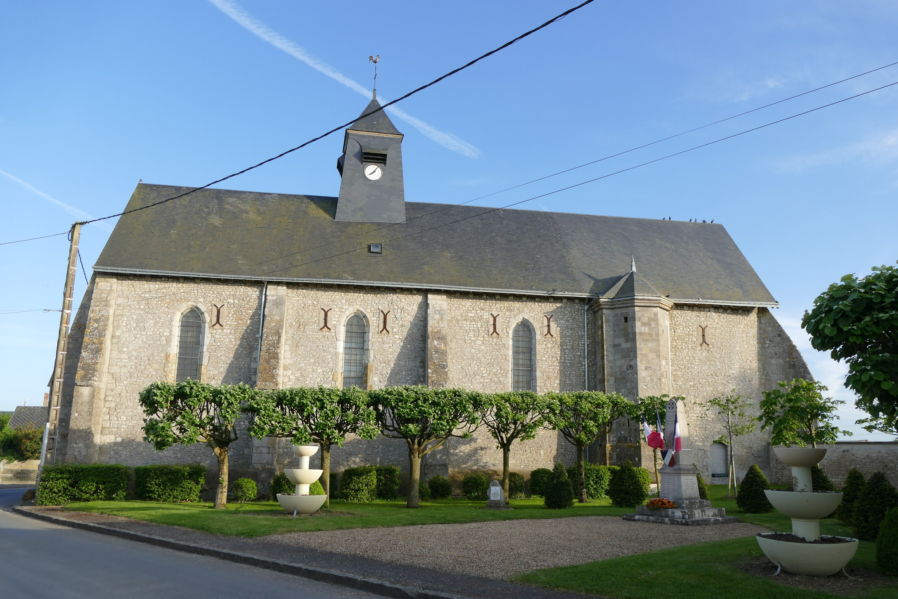 Saint-André-and-Saint-Saturnin's church in Jouy-en-Pithiverais (Loiret, Centre-Val de Loire, France).